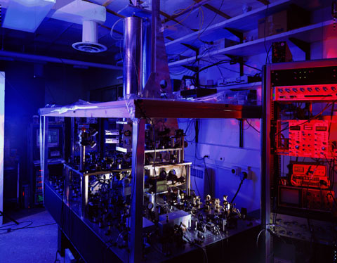 NIST-F1 Cesium fountain atomic clock, serving as the US time and frequency standard, with an uncertainty of 5.10-16 (as of 2005).